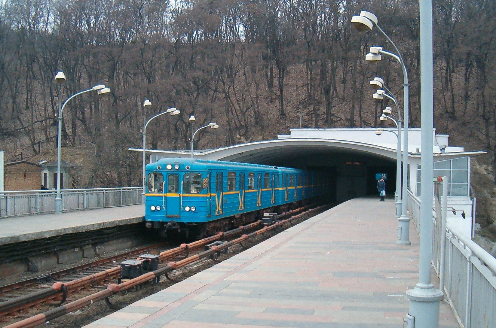 Metro of Kiev - Dnipro Station